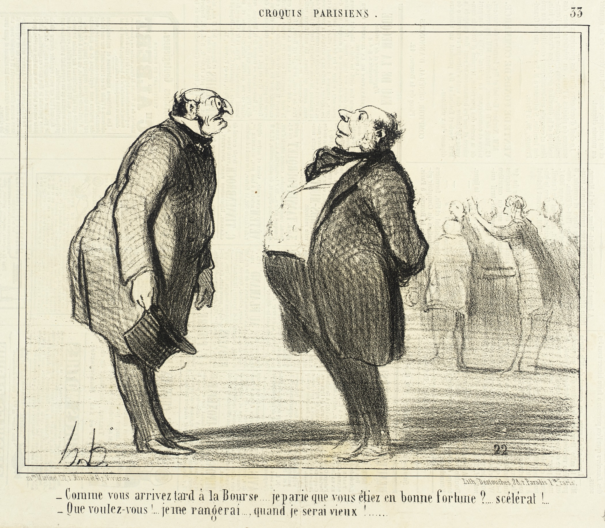 France, 1857 Series: Croquis Parisiens Periodical: Le Charivari, 26 February 1857 Prints; lithographs Lithograph Sheet: 7 15/16 x 10 1/16 in. (20.16 x 25.56 cm) Gift of Mrs. Florence Victor from The David and Florence Victor Collection (M.91.82.304) Prints and Drawings